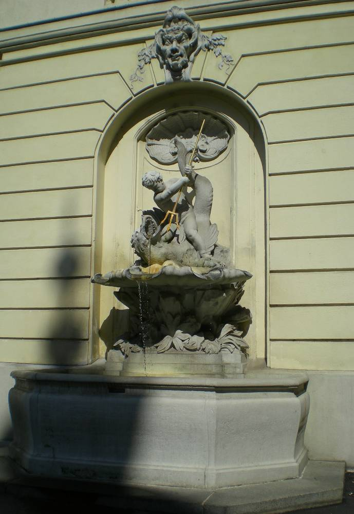 Austria, Vienna, University of Vienna